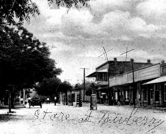 Main Street Newberry looking east